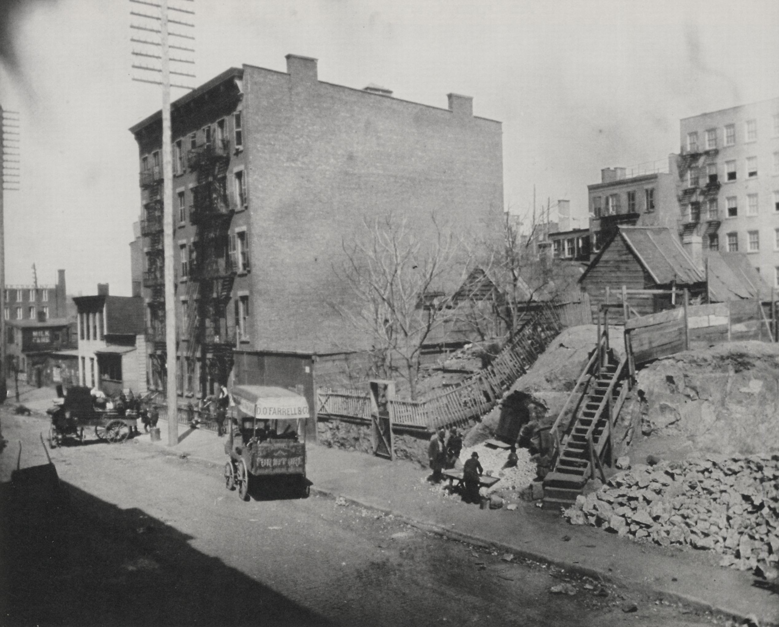 Hells Kitchen and Sebastopol